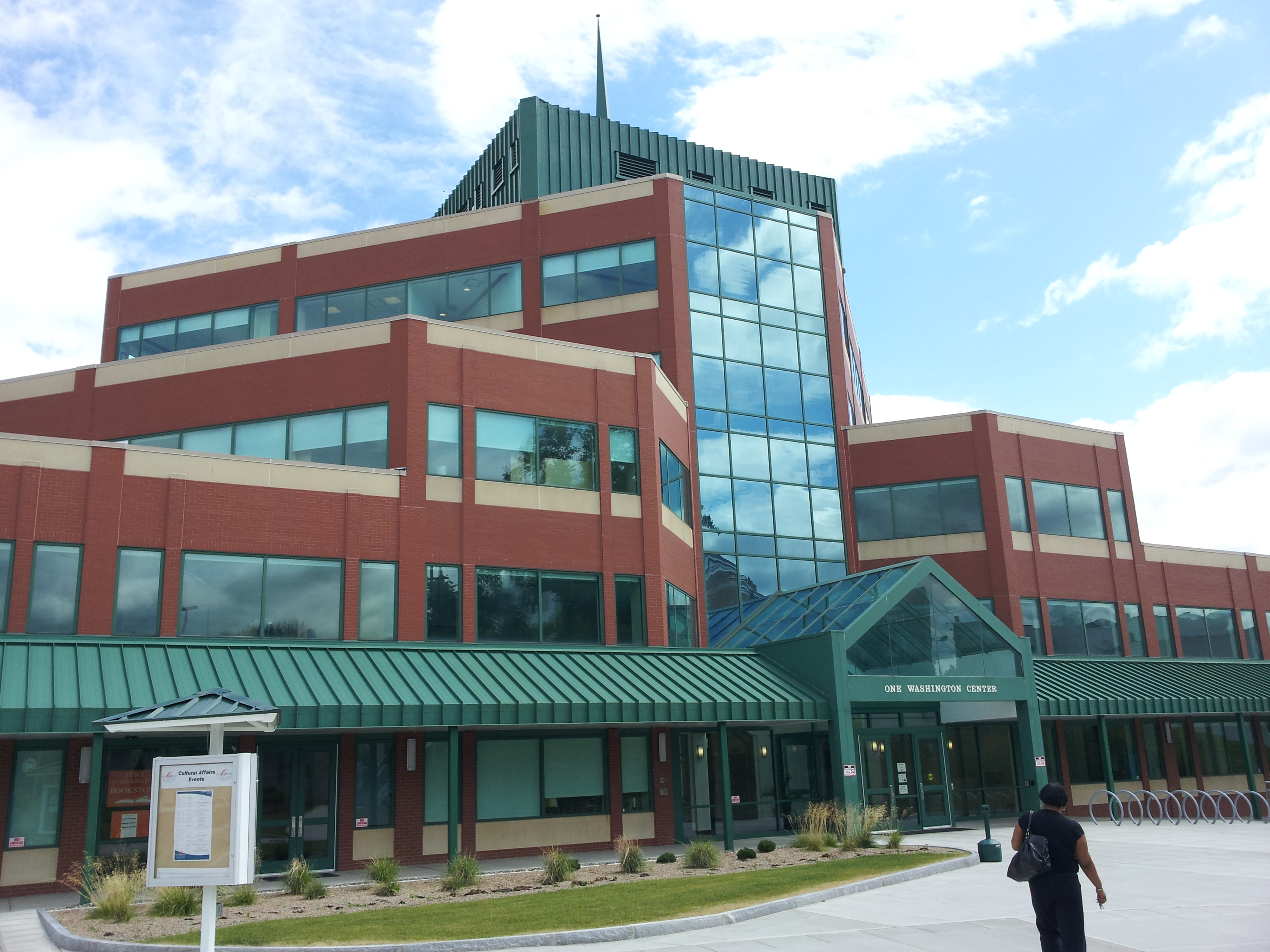 Looking at the Tower Building on the SUNY Orange Newburgh Campus.